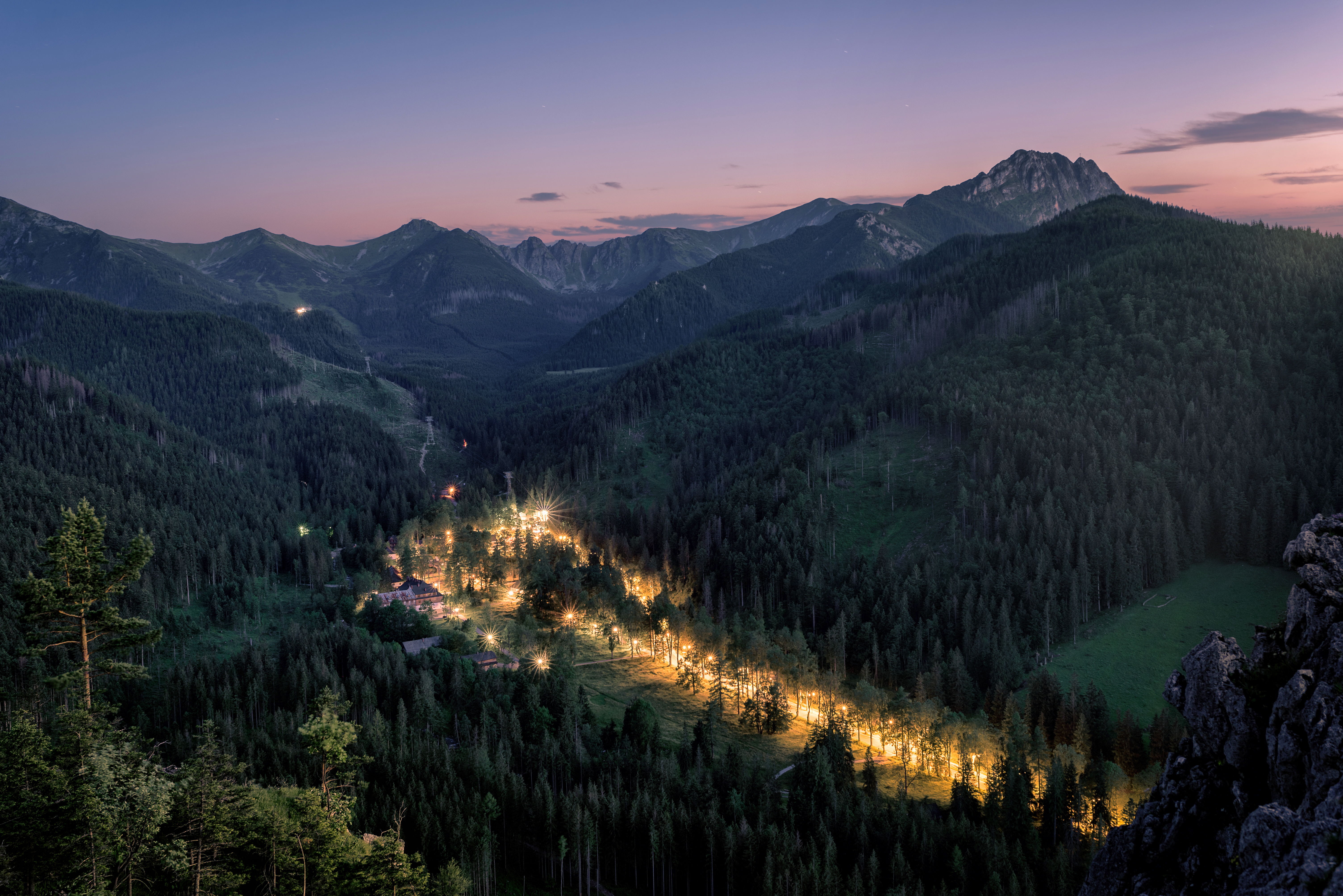 Tatra National Park is a National Park located in the Tatra Mountains, central-southern Poland. The Park has its headquarters in the town of Zakopane. View from the top of Nosal, Bystra Valley and the Tatras. This is a photography of protected area with CRFOP ID PL.ZIPOP.1393.PN.14